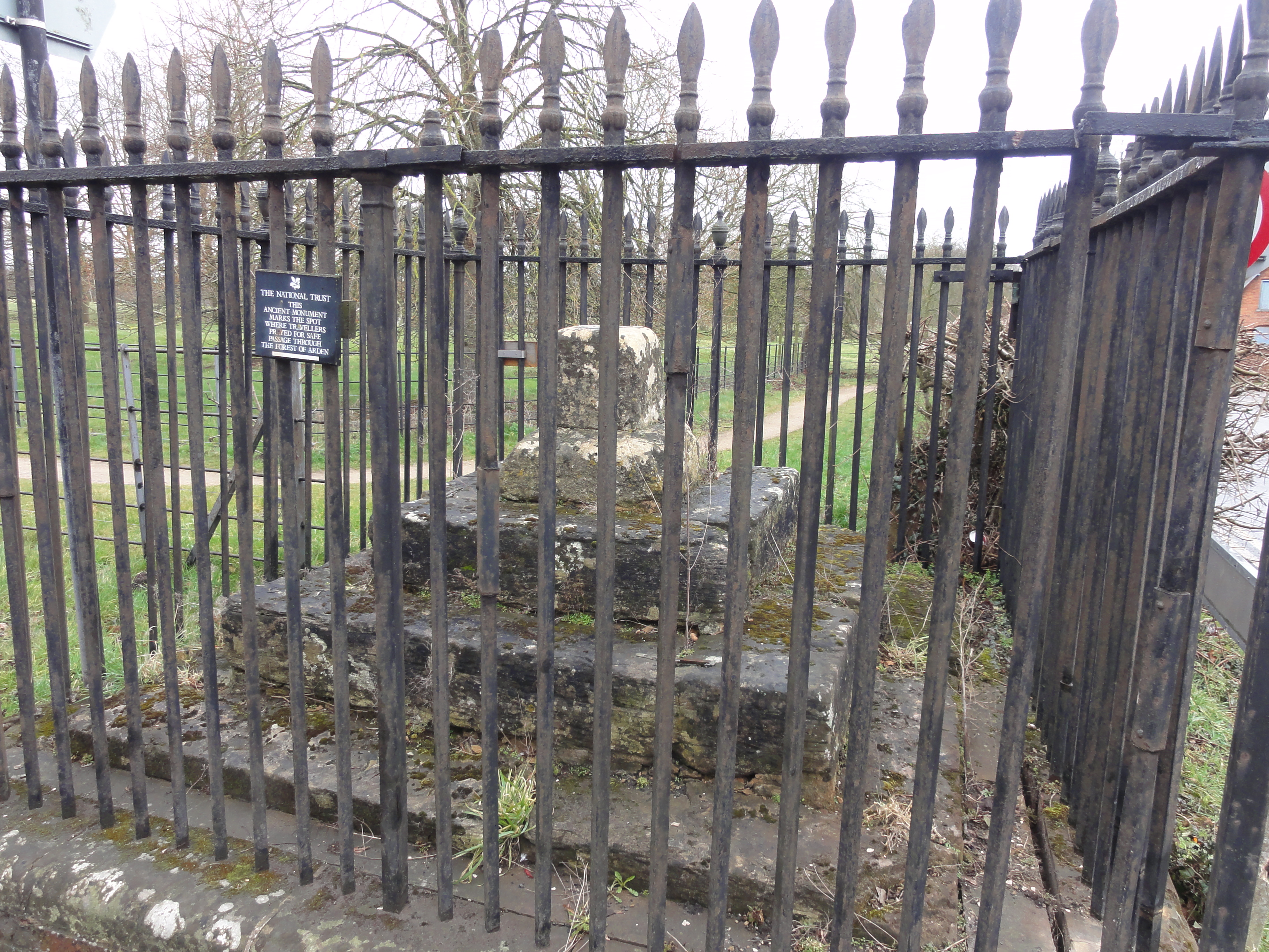 The wayside cross, Coughton Cross, was said to be the place travellers would pray at before entering The Ancient Forest of Arden, now just a collection of small woods.